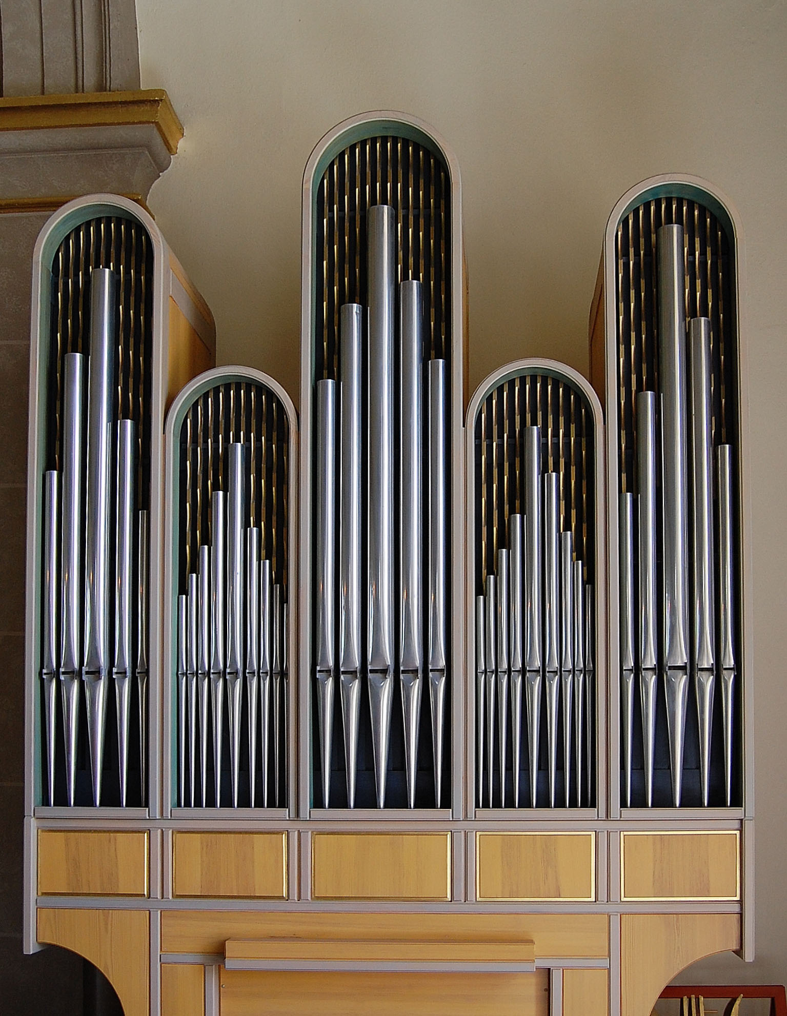 Madesjö church.Organ.